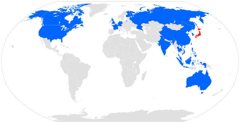 Japan airlines destinations, Finland included. This map includes Japan shown in red, with the following Japan Airlines destination countries shown in blue.